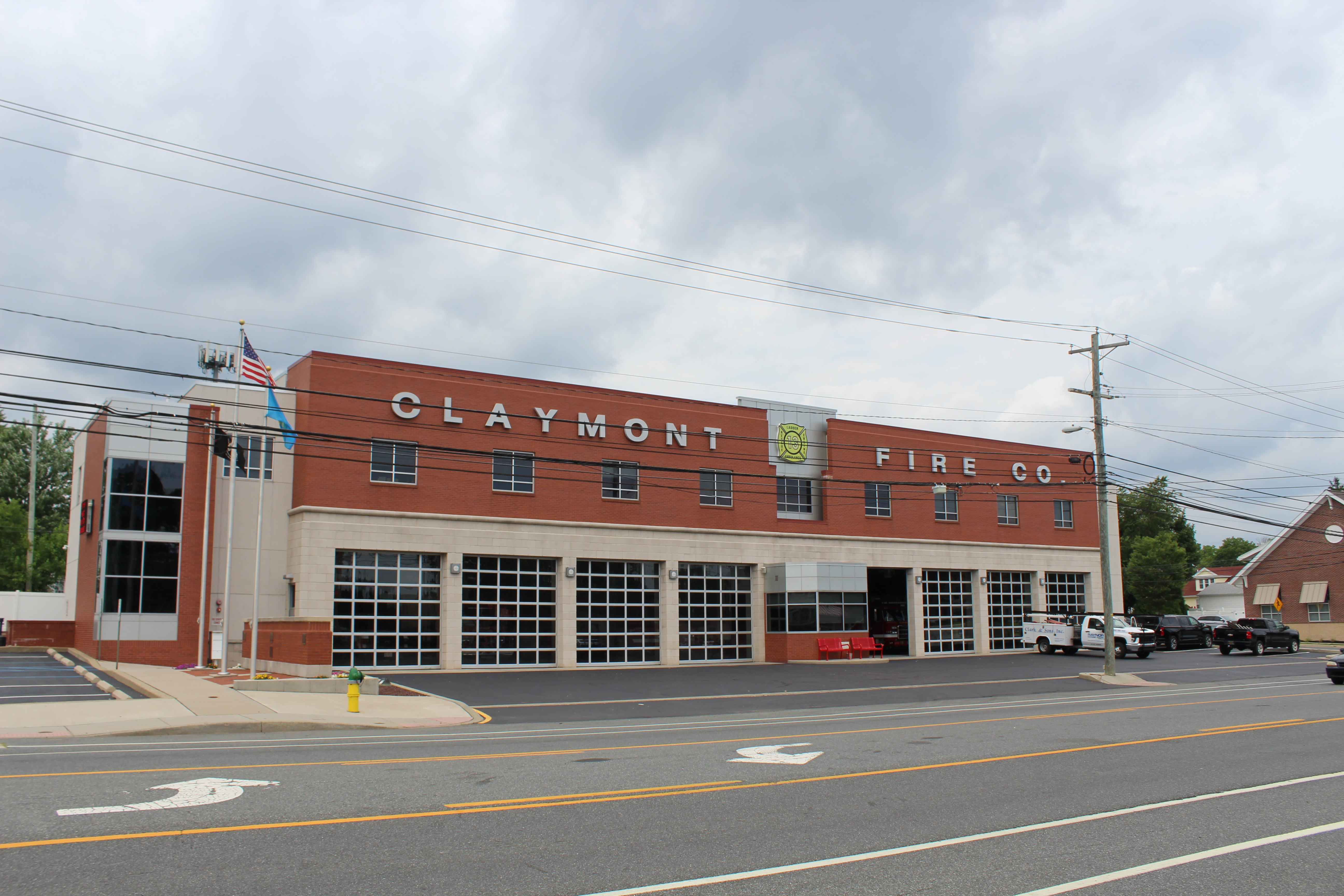 This is the Claymont Fire Co. building on Philadelphia Pike in Claymont, Delaware.